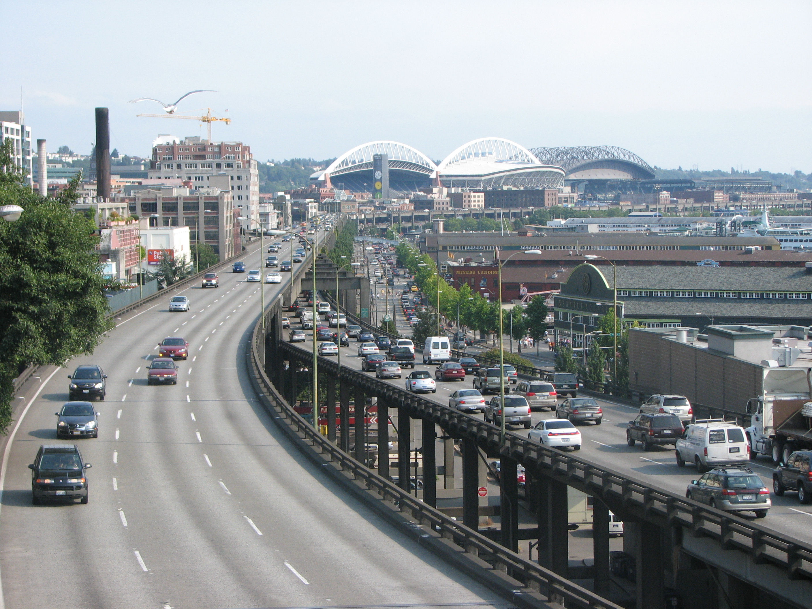 The northern terminus of the Alaskan Way Viaduct in Seattle, Washington, United States.